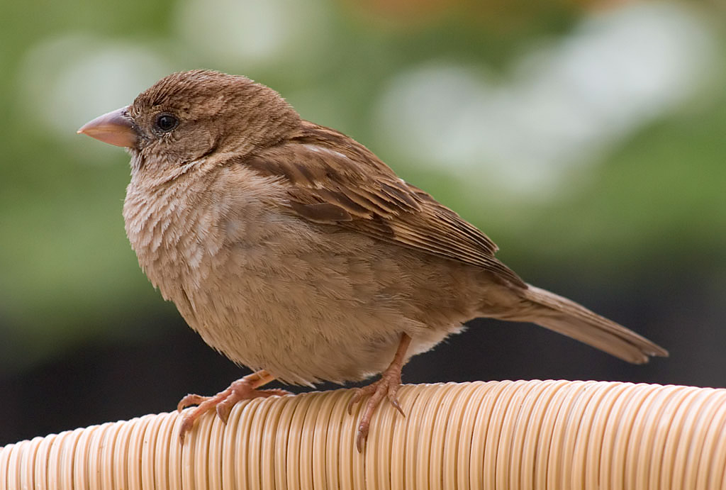 Passer domesticus Author: Adam Kumiszcza